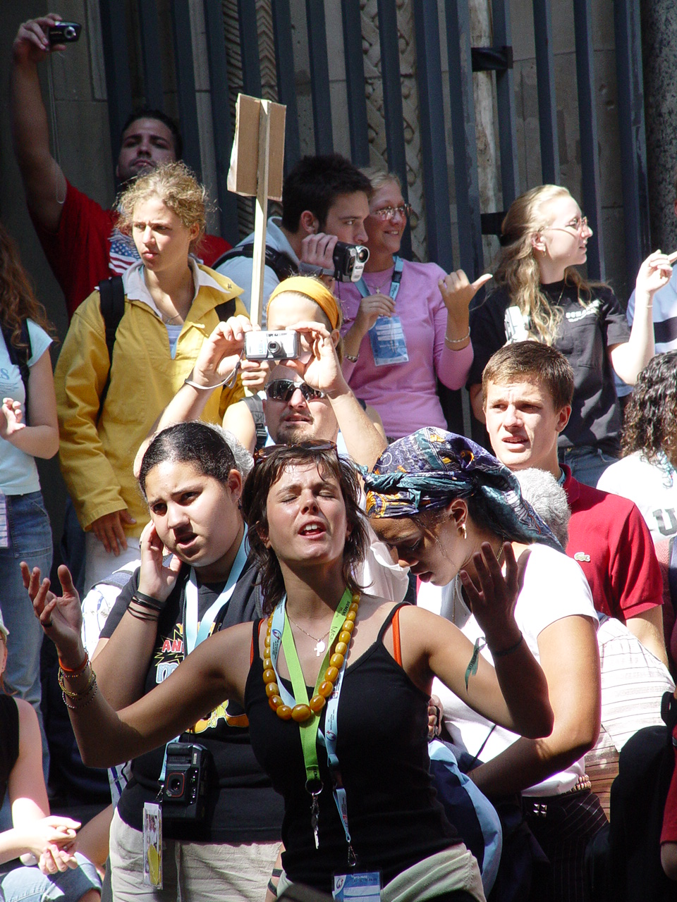 A group of believers